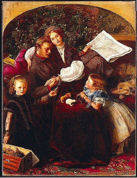 Peace Concluded